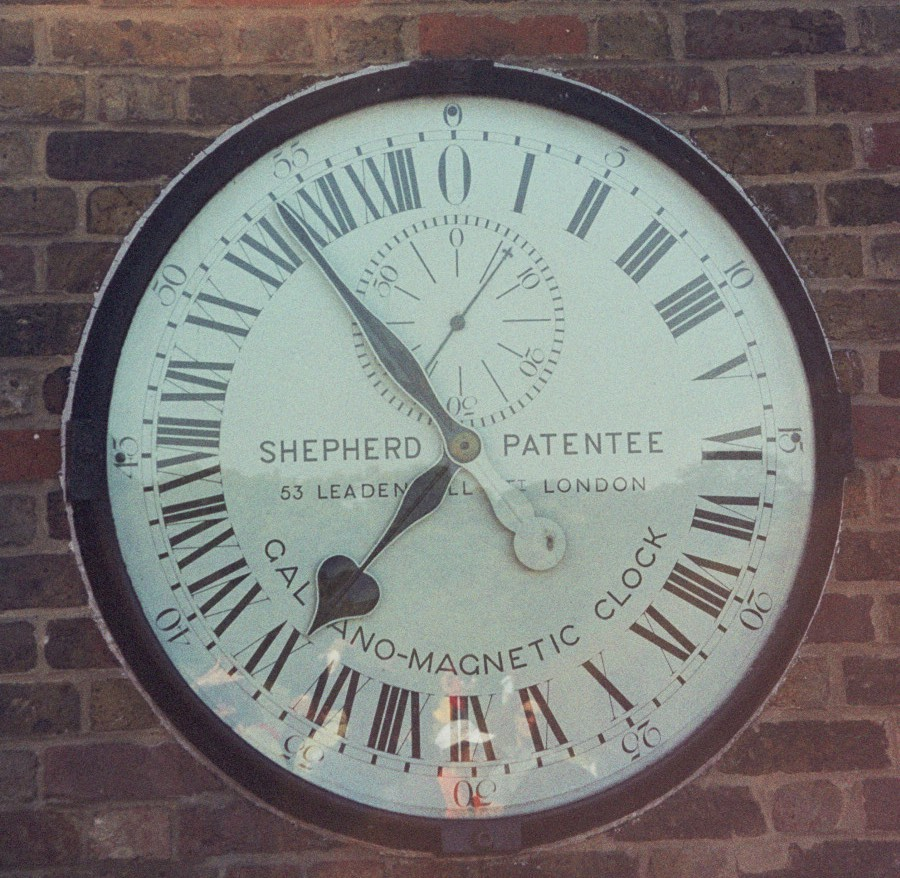 Shepherd gate clock, Greenwich world clock 24 hours